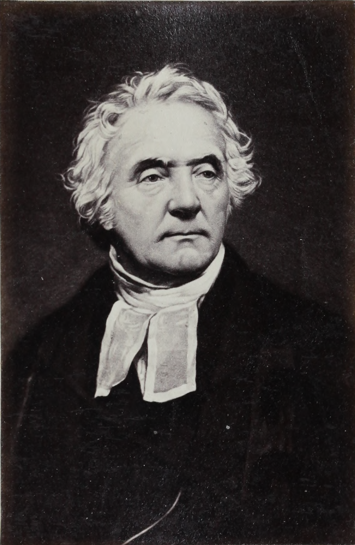 Lent by the Senatus of the Free Church College, Edinburgh. The Rev. Thomas Chalmeus, D.D., LL.D., Oxon., D.C.L. and corresponding member of the Institute of France. Born at Anstruther, 1780 ; died at Morningside, 1847.